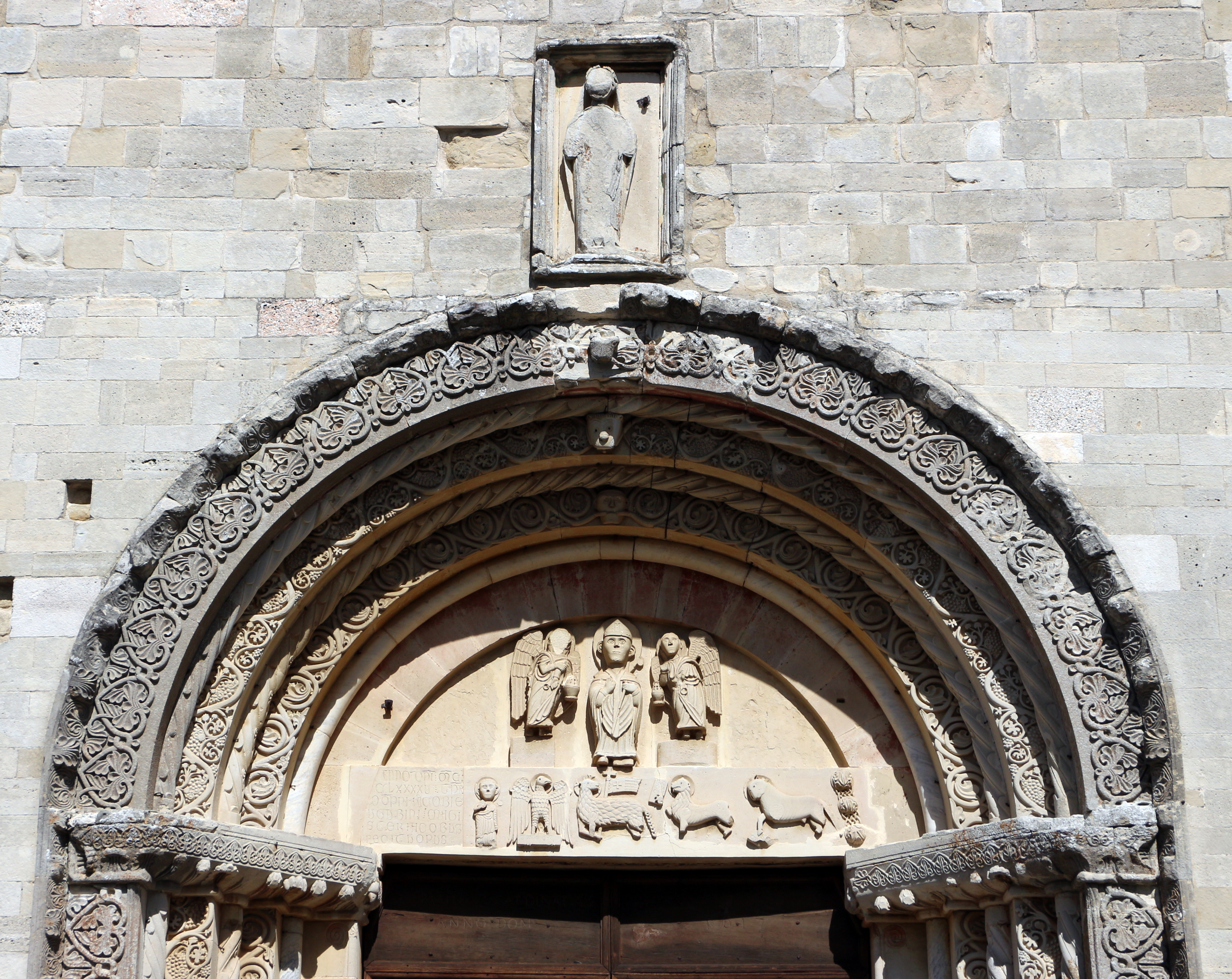 Sant'Esuperanzio (Cingoli)